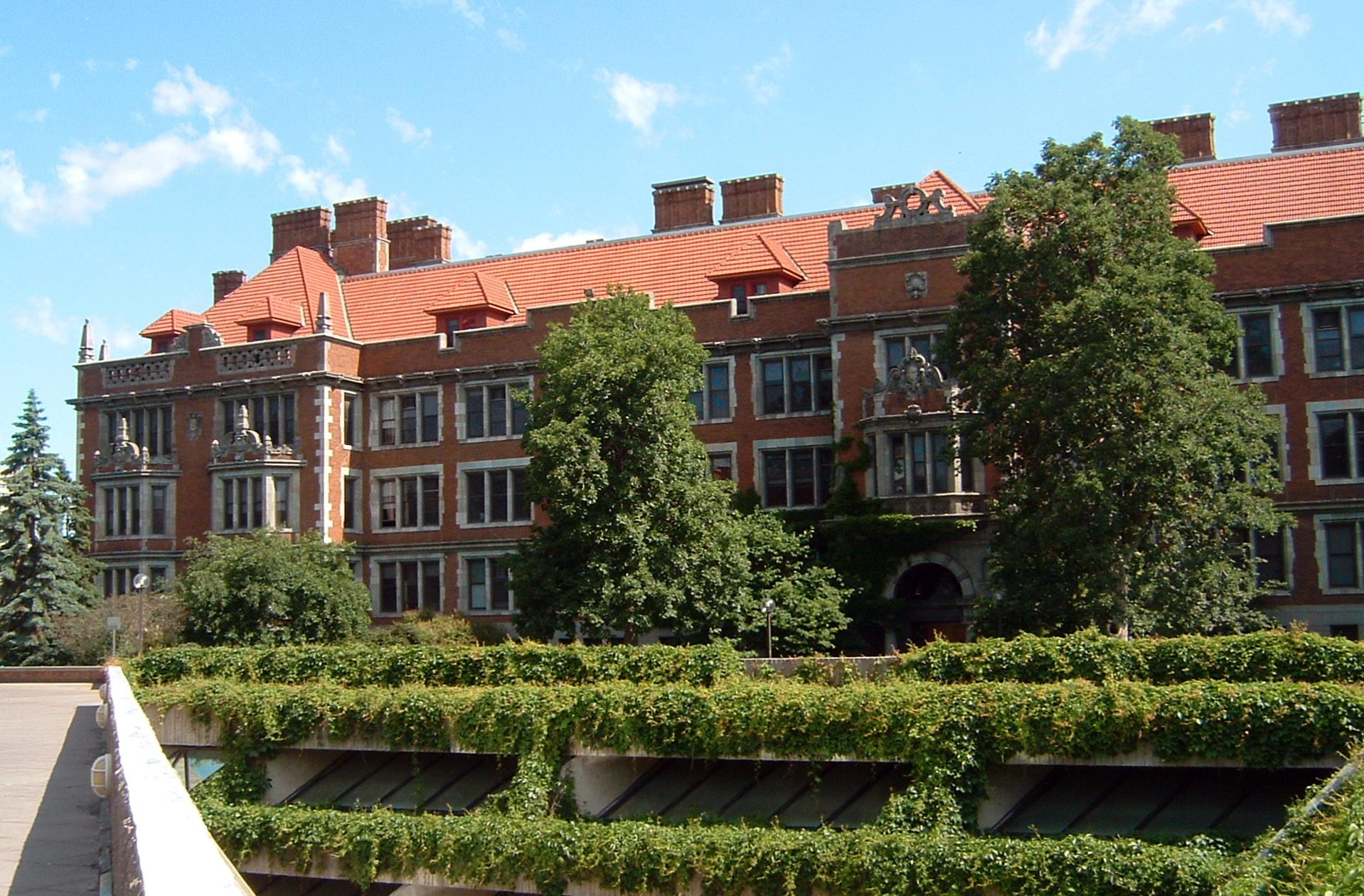 Folwell Hall at the University of Minnesota in Minneapolis (in the University of Minnesota Old Campus Historic District, listed on the National Register of Historic Places). Photo taken on June 6, 2005 by User:Mulad. Hereby released into the public domain.